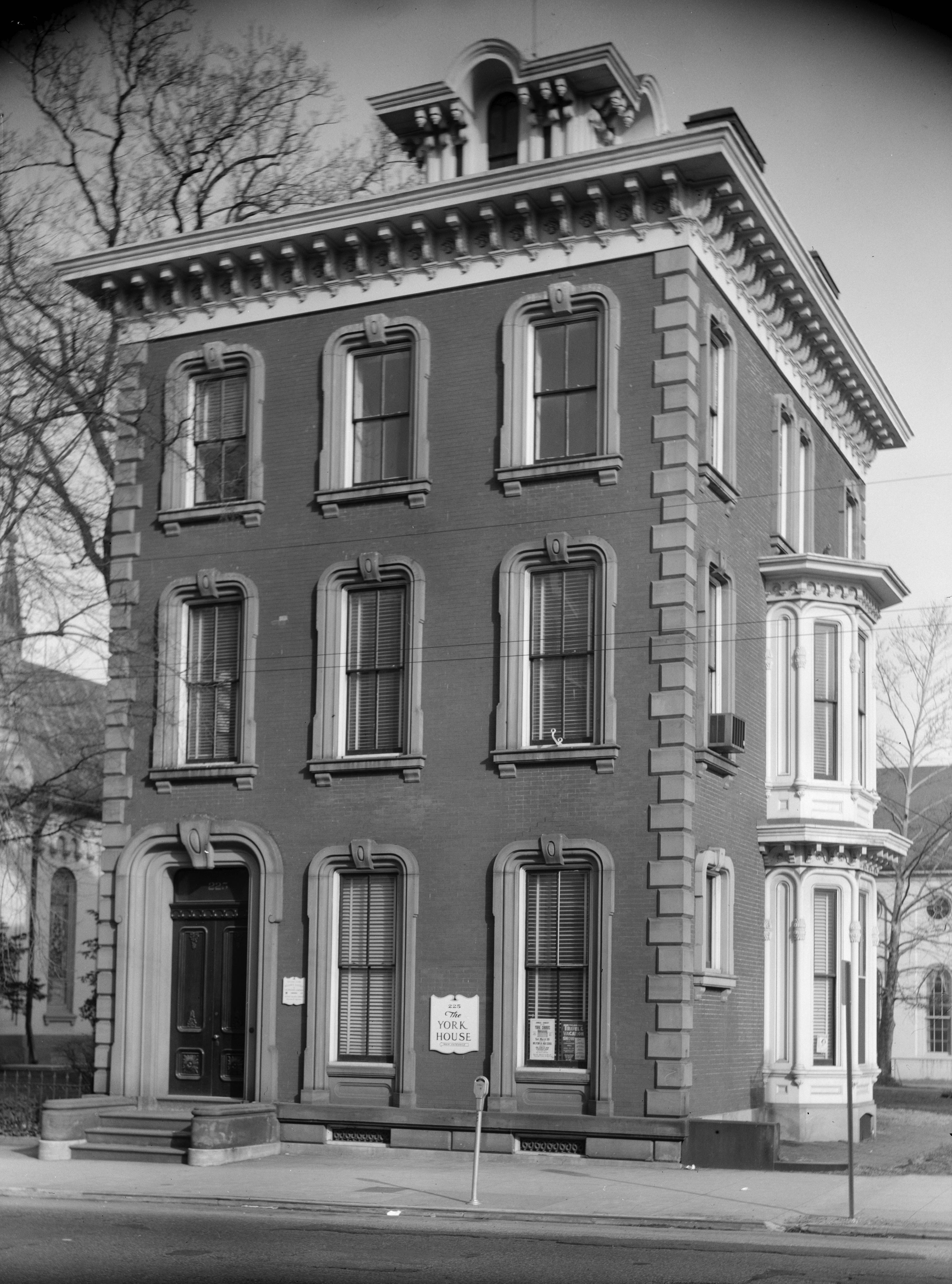 Front of the Billmeyer House, located at 225 E. Market Street in York, Pennsylvania, United States. Built in 1860, it is listed on the National Register of Historic Places.